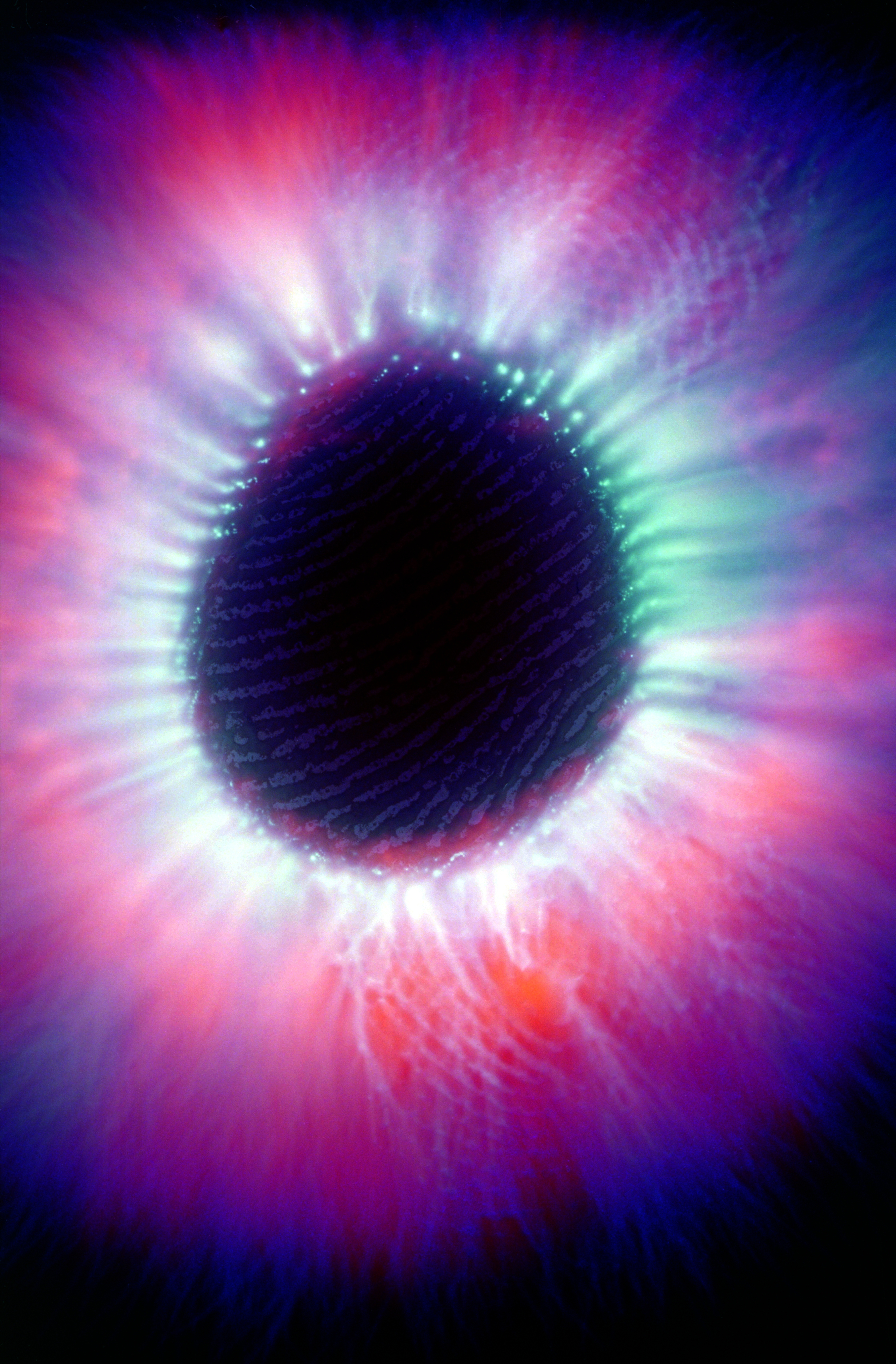 This technique has not yet been fully studied, the possible readings of these colors captured by Kirlian photography certainly has a logical meaning not yet deciphered